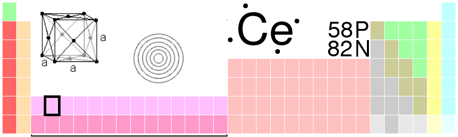 Position of Ce in the Periodic Table of Elements.This image was copied from Image:Ce-TableImage.png.